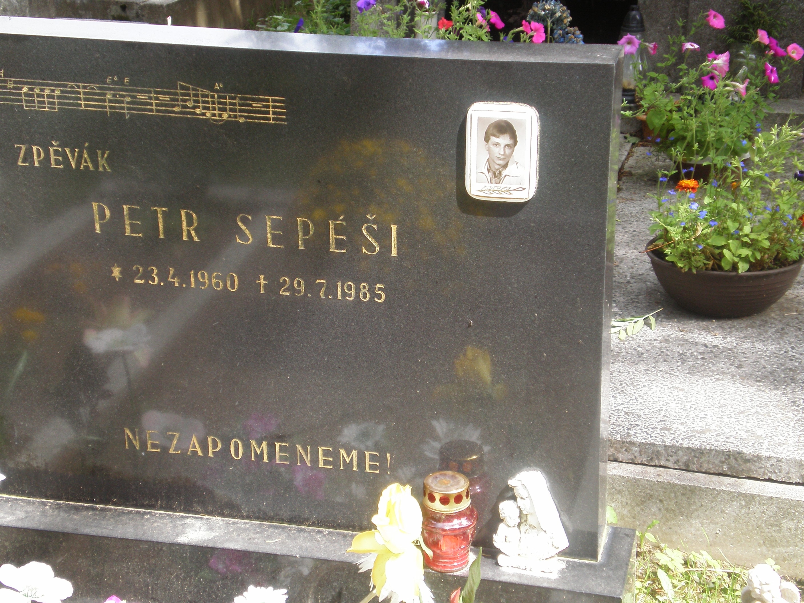 Singer Petr Sepéši Tomb Stone